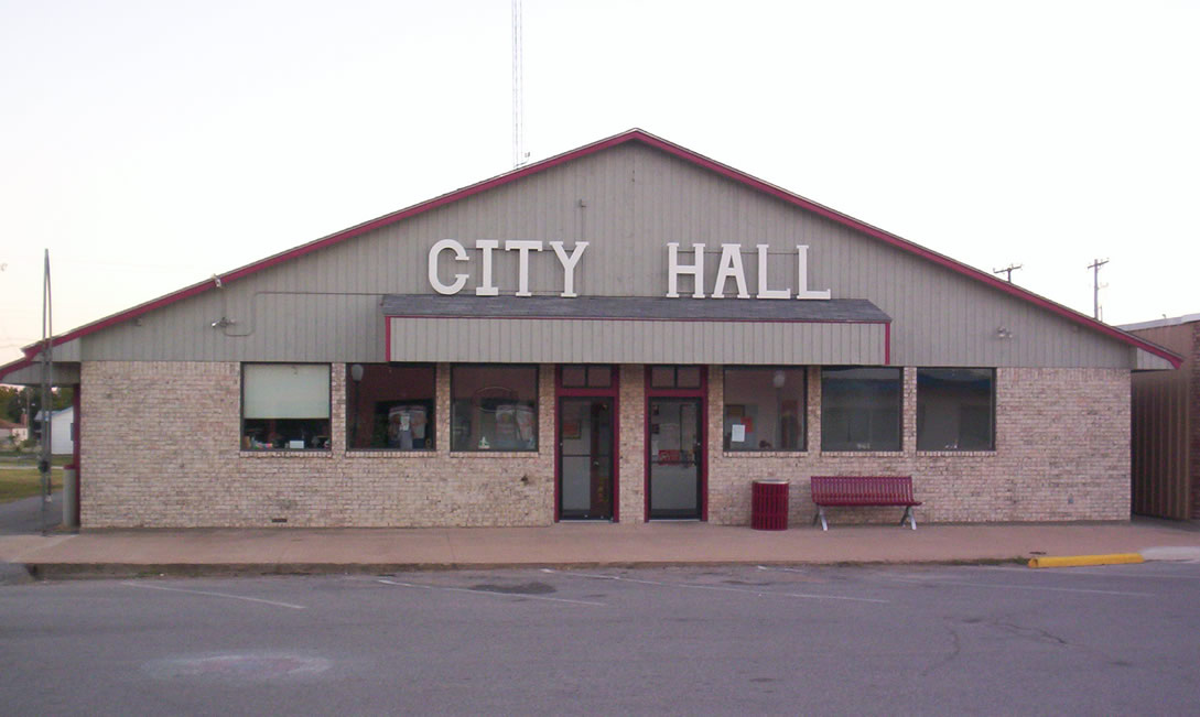 A picture of City Hall in Cache, Oklahoma